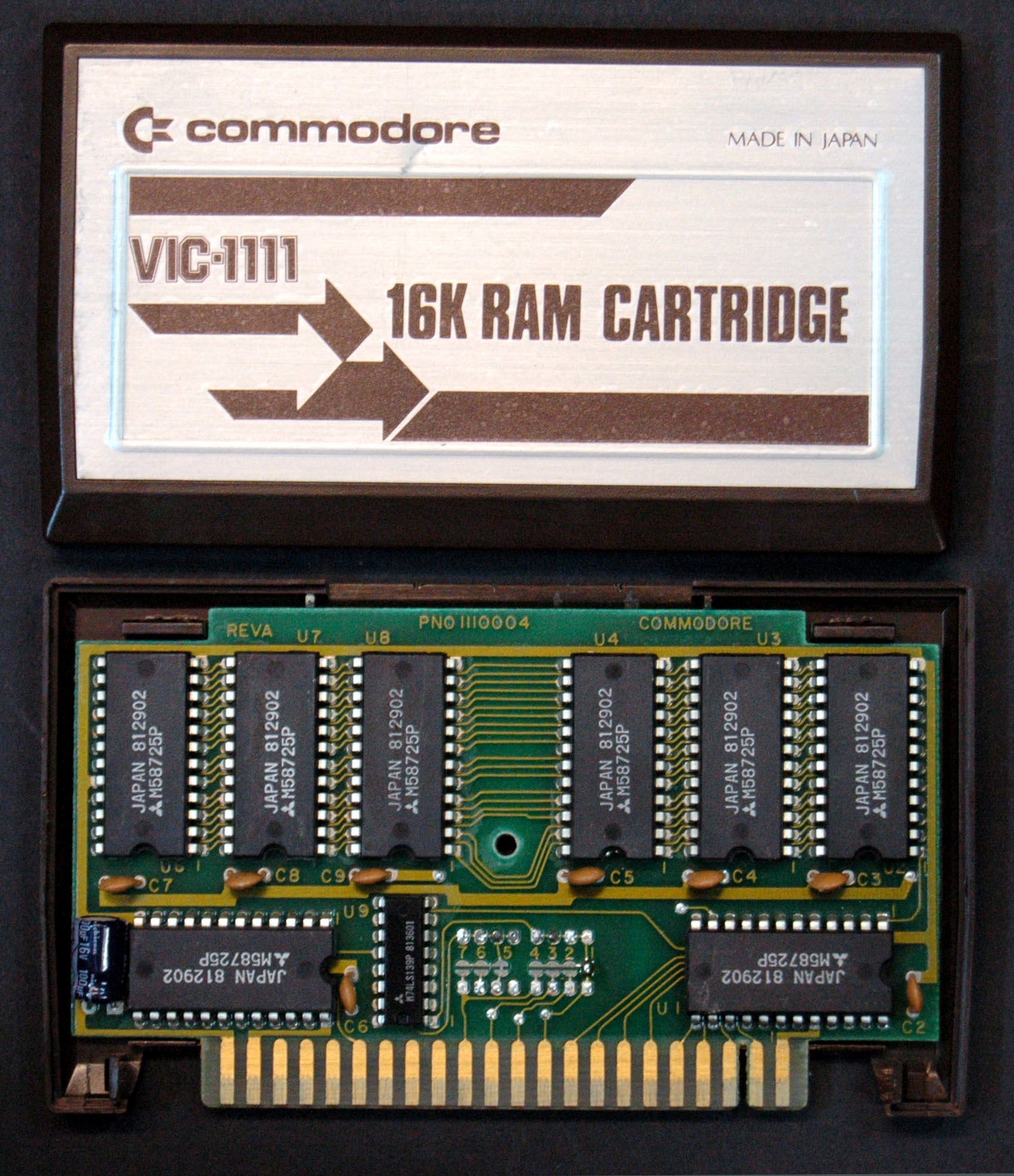 VIC-1111 16K RAM Extension Cartridge for Commodore VIC-20 (open)